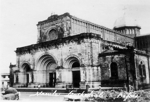 Manila Cathedral before the Japanese W.W.II bombing in 1945